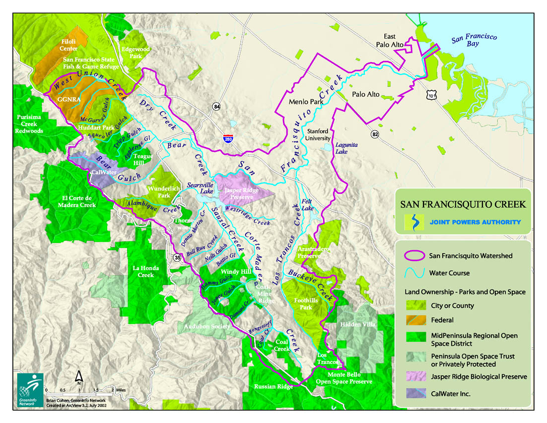 map of San Francisquito Creek watershed with named tributaries, cities, and major private and public landowners